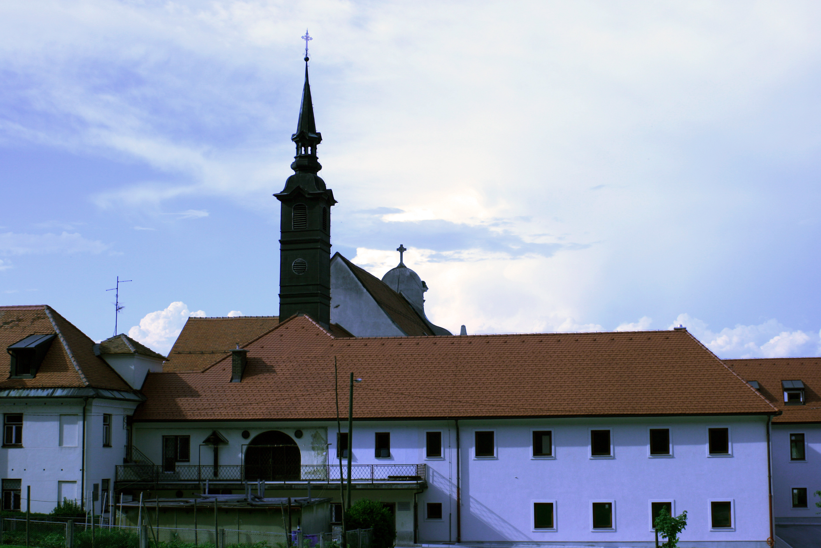 Celje, The Capuchin Monastery.